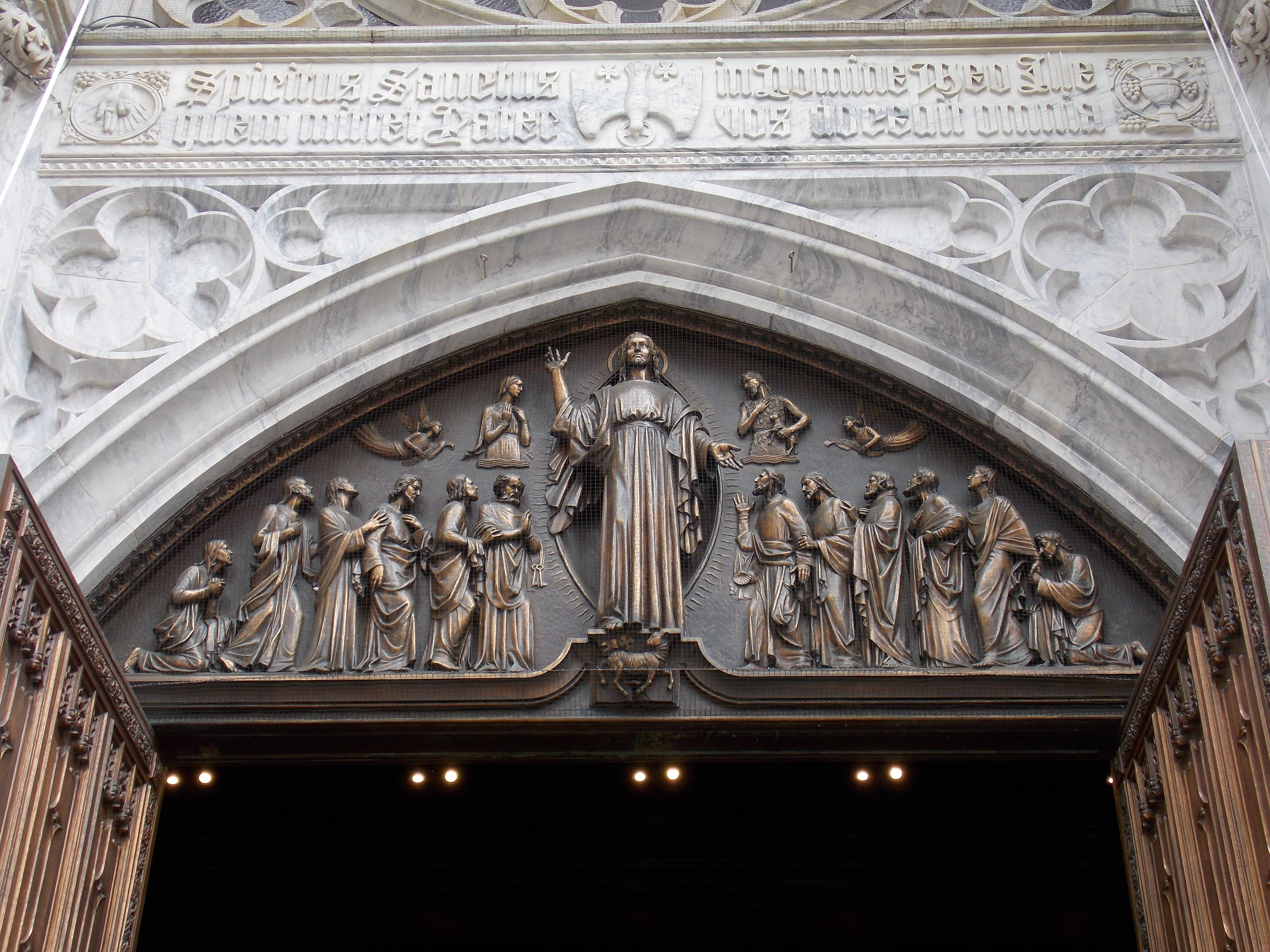 The bas relief above the main entrance into St. Patrick's Cathedral on Fifth Avenue in Manhattan, New York.